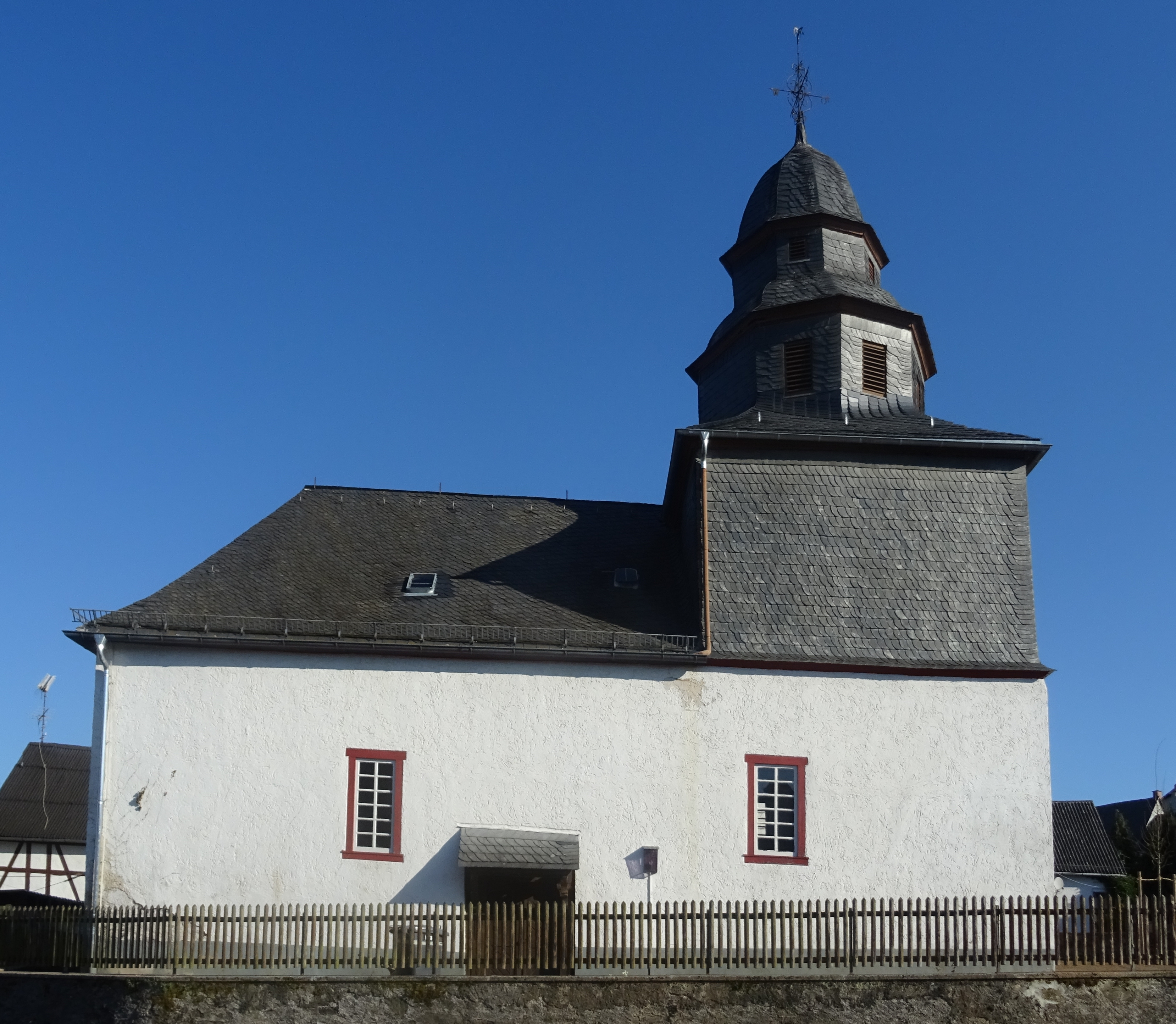 entrance side of the Church in Bissenberg, Leun, Hessen, Germany